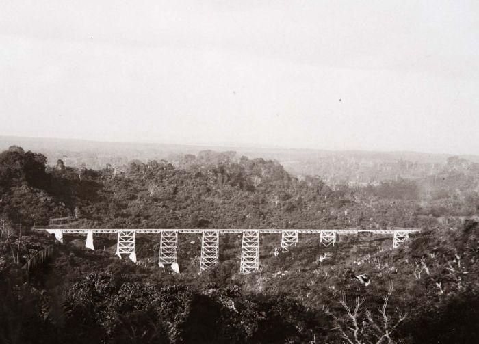 Railway bridge between Banjar and Cijulang